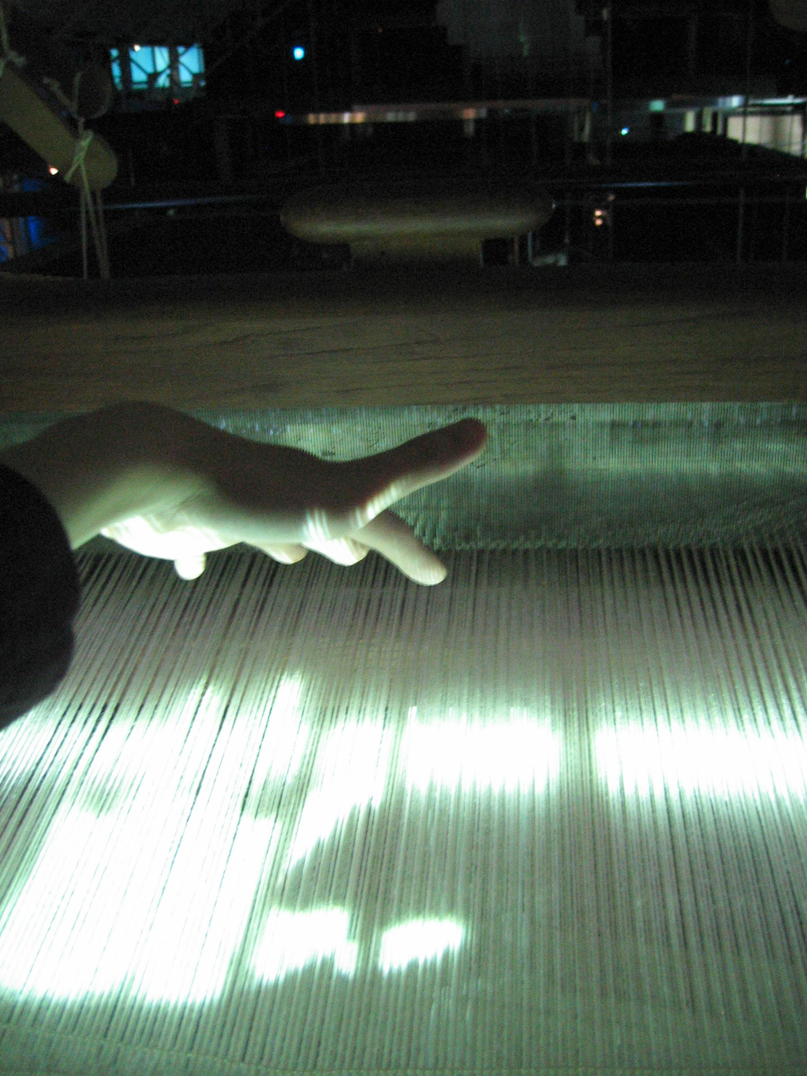 View of artwork 'Musical Loom', Le Fresnoy